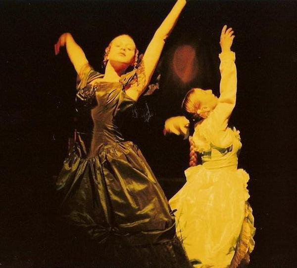 Still photo from NYC Premiere of 'An Occurrence Remembered' directed by Lorin Morgan-Richards, 2001. Lead Choreography by Nicole Cavaliere.